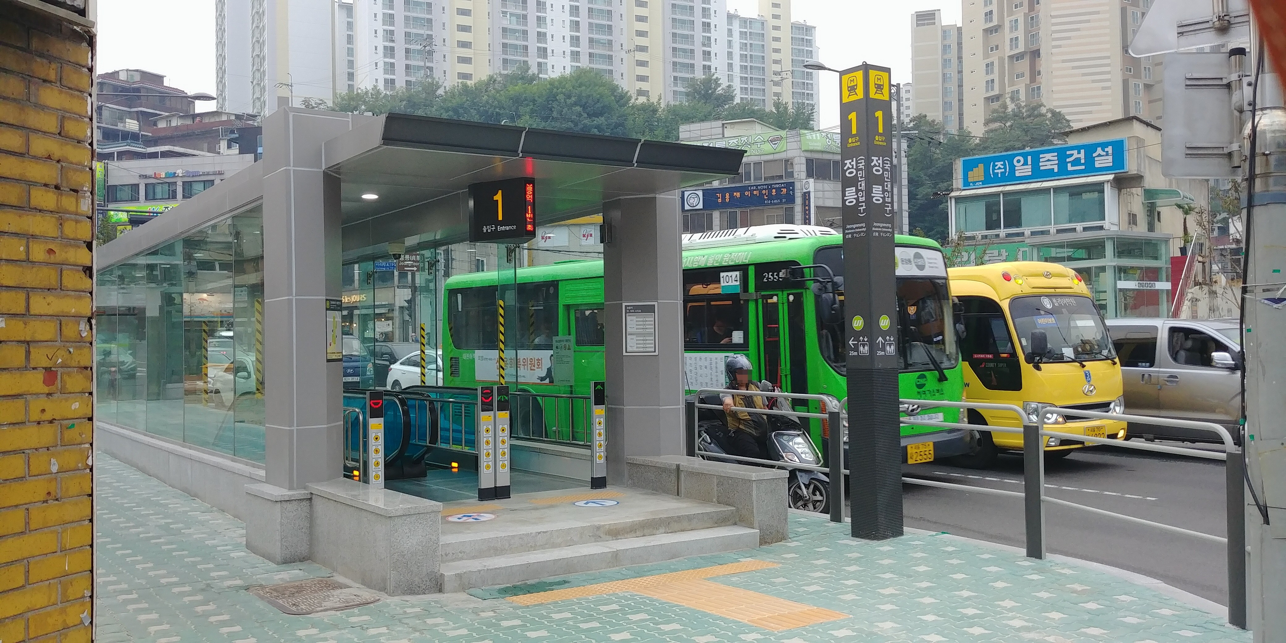 A scenery of Ui LRT Jeongneung Station Exit 1